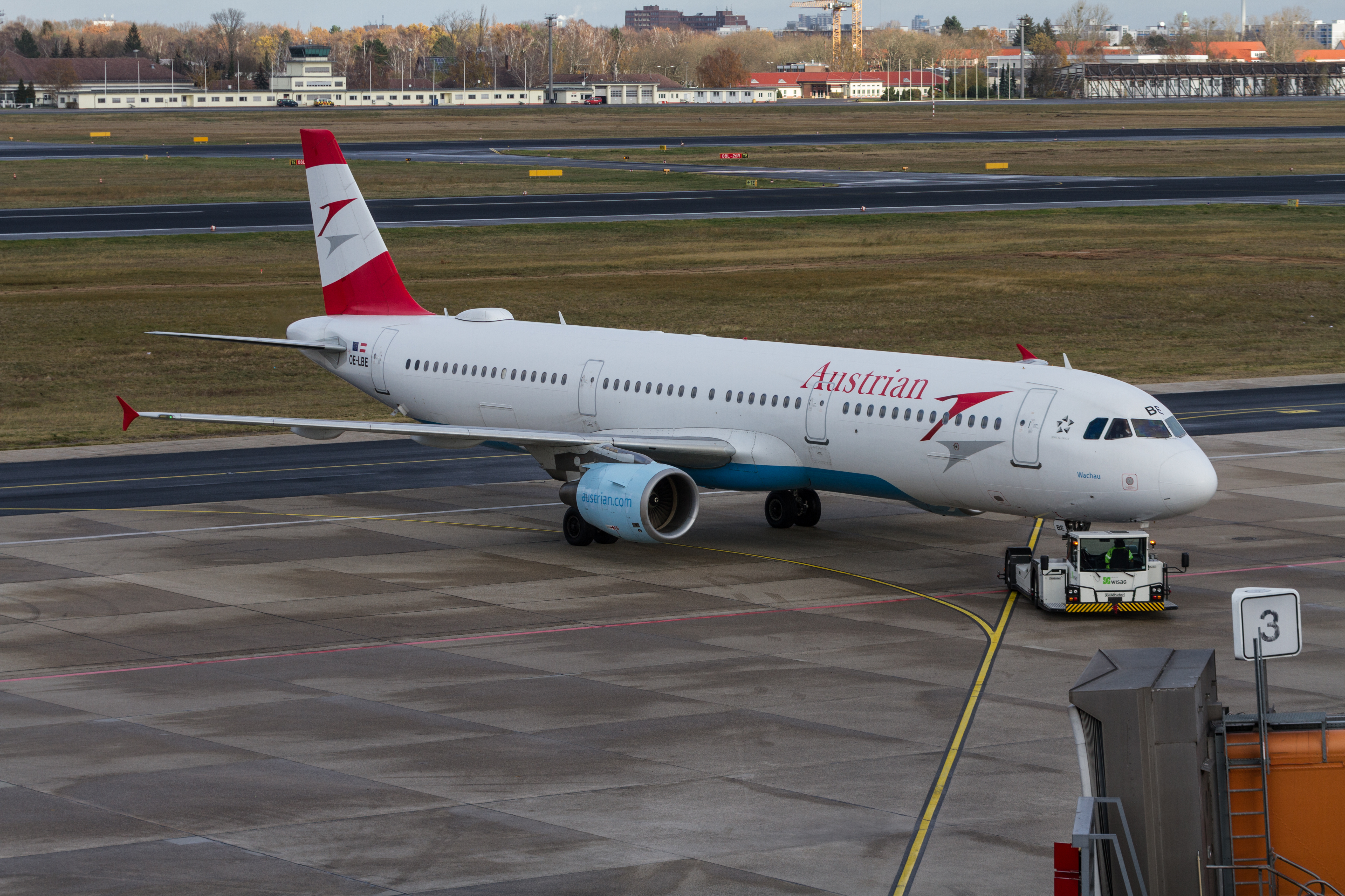 Austrian Airways Airbus A321 being pushed back at Tegel Airport, Berlin